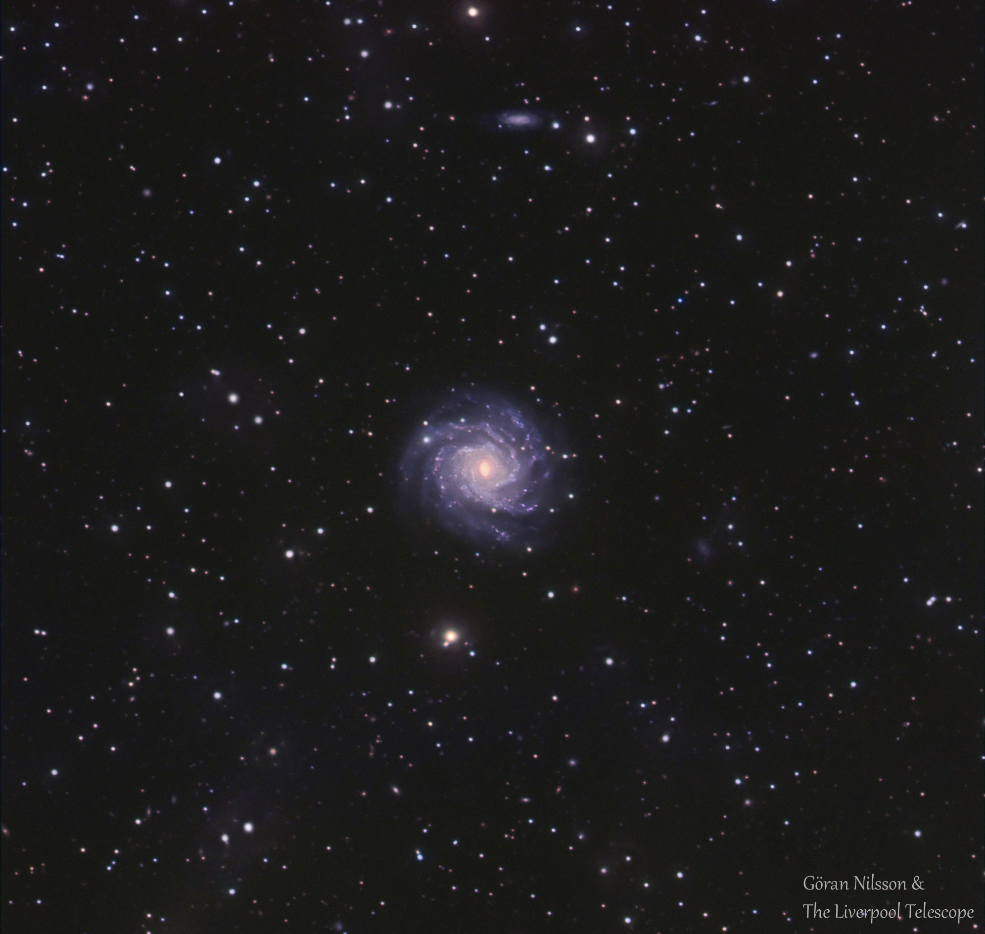 RGB image of galaxy NGC 7015. Data from the Liverpool Telescope (a 2 m RC telescope on La Palma) processed by Göran Nilsson. Exposure: 50 x 90 s = 1.2 hours